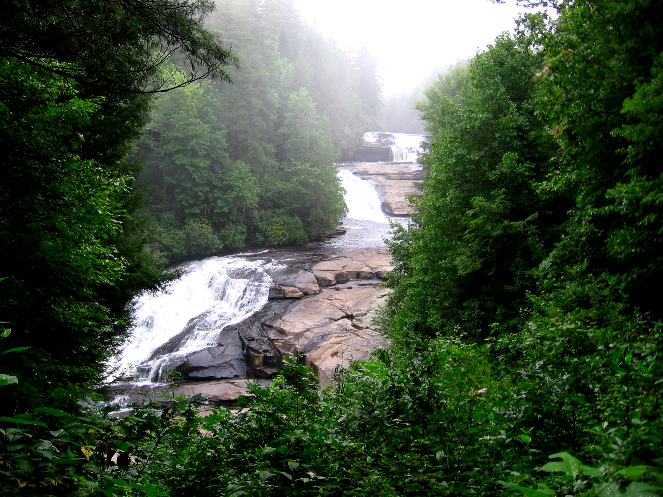 Triple Falls, NC., Self-Authored, 8-11-06